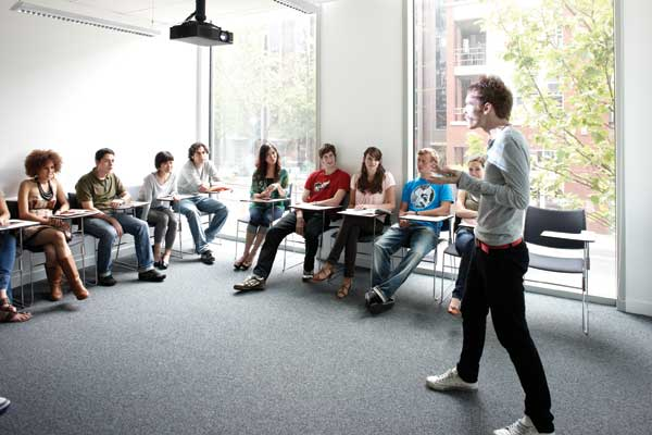 Malvern House London is an independent English language school which was established in 2000.